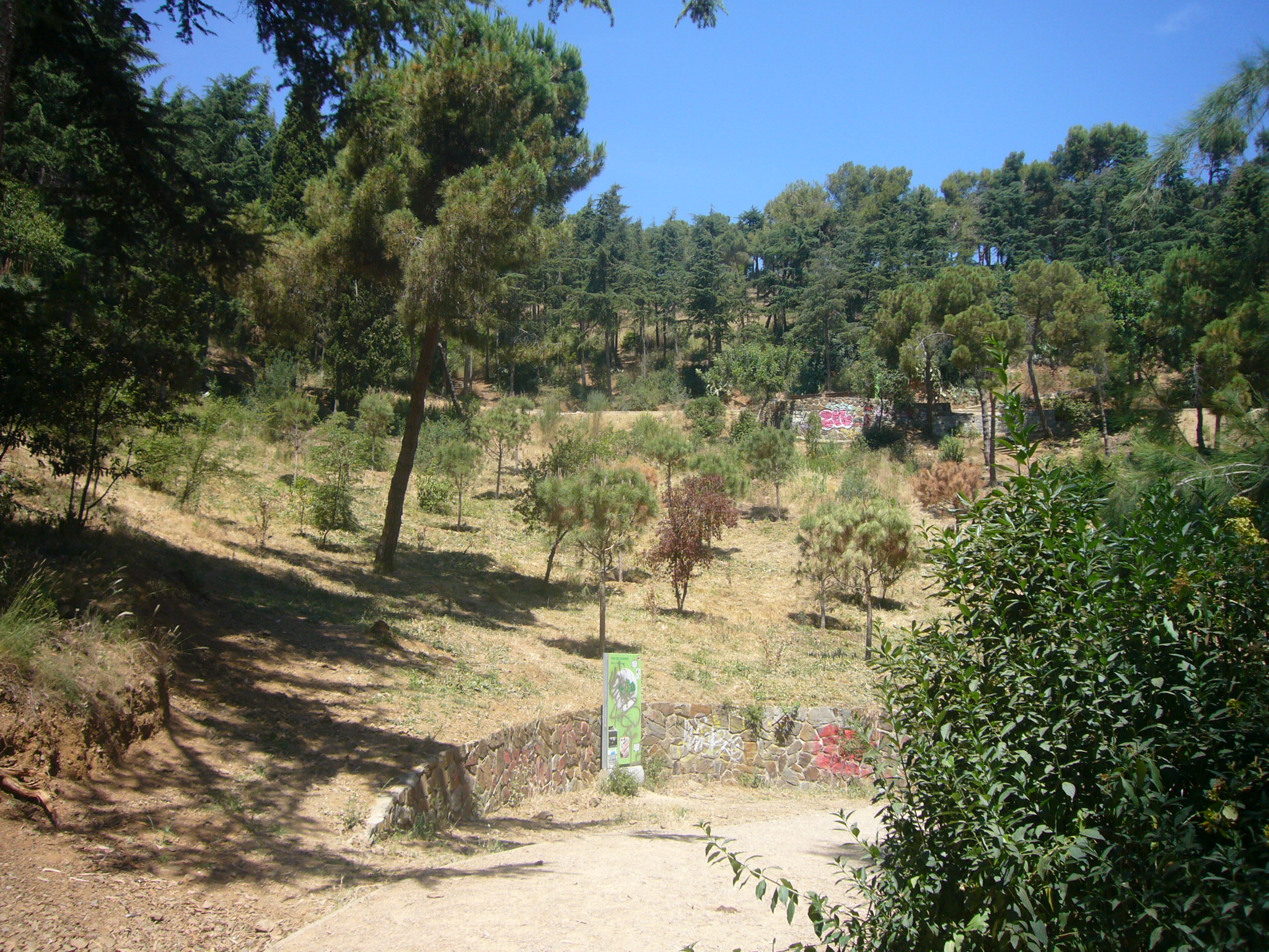 Parc del Guinardó